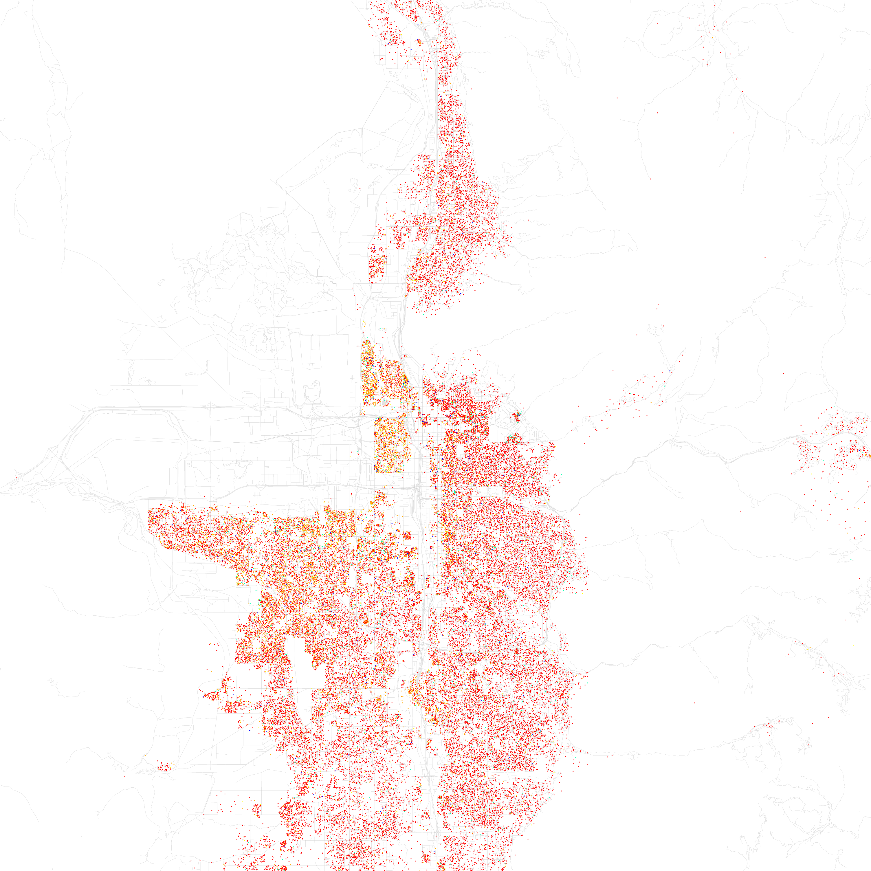 Maps of racial and ethnic divisions in US cities, inspired by Bill Rankin's map of Chicago, updated for Census 2010. Red is White, Blue is Black, Green is Asian, Orange is Hispanic, Yellow is Other, and each dot is 25 residents. Data from Census 2010. Base map © OpenStreetMap, CC-BY-SA